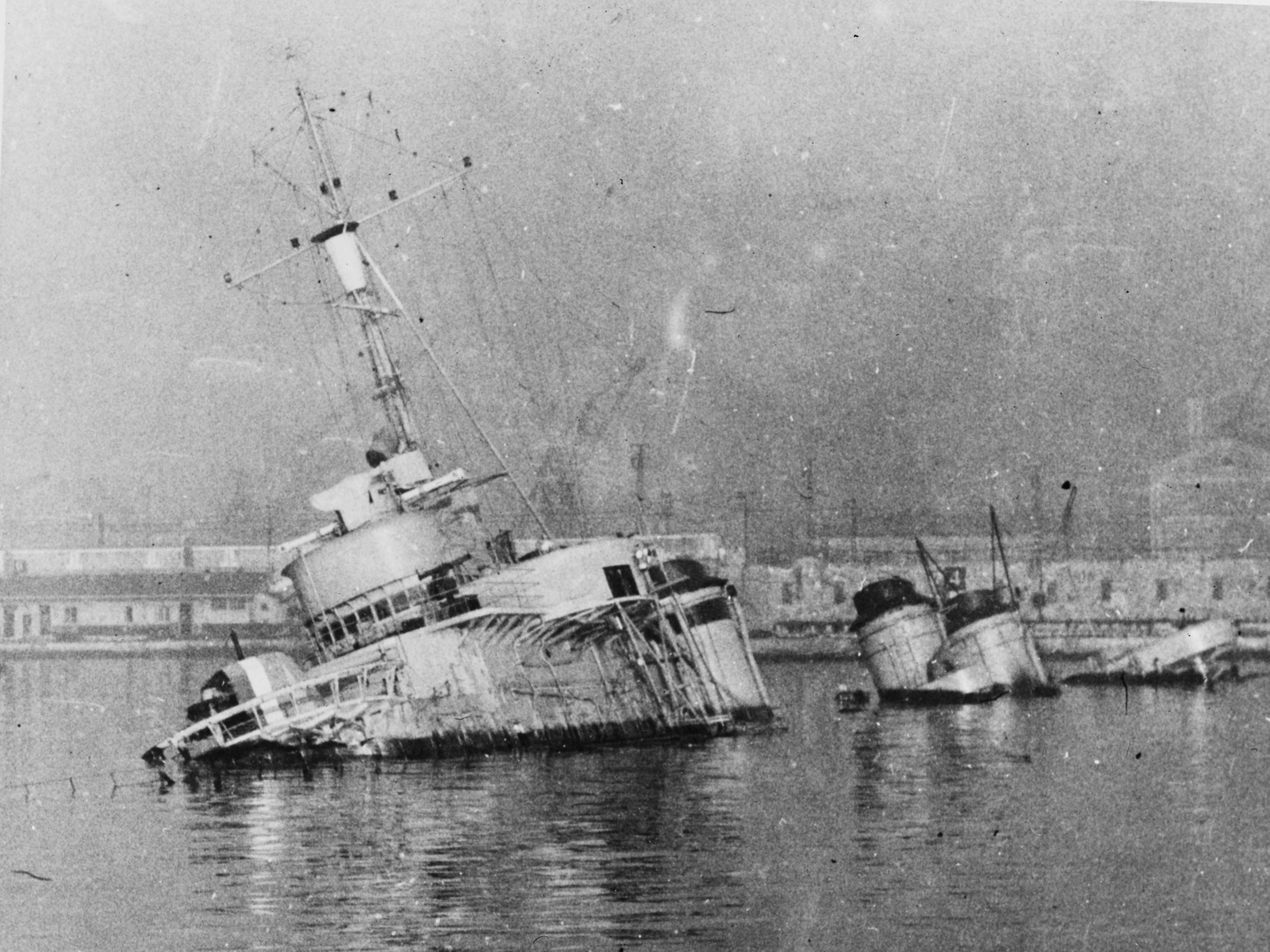 Scuttling of the French Fleet at Toulon on 27 November 1942: The destroyer Tartu sunk off the southeastern waterfront of Parc a Charbon island, soon after scuttling. The walls of the island are visible in the background.